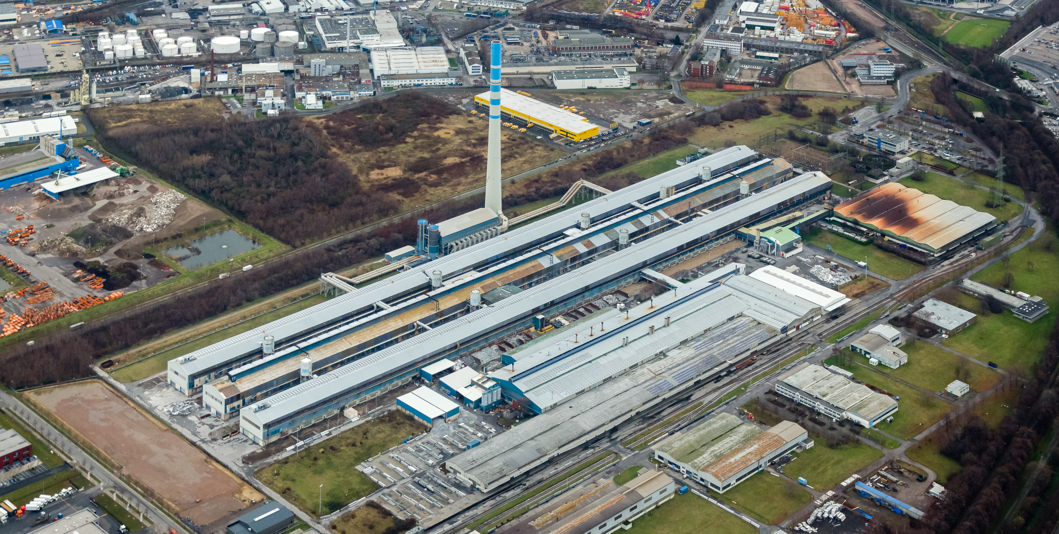 Aluminium smelter of TRIMET Aluminium SE in Essem